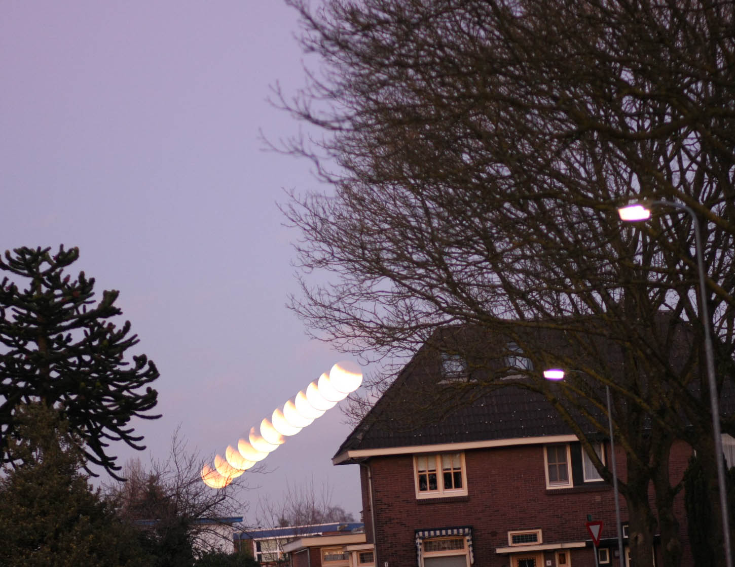 12 pictures of lunar eclipse of 2011 Dec 10 merged together, just during the umbral exit phase after Moonrise.